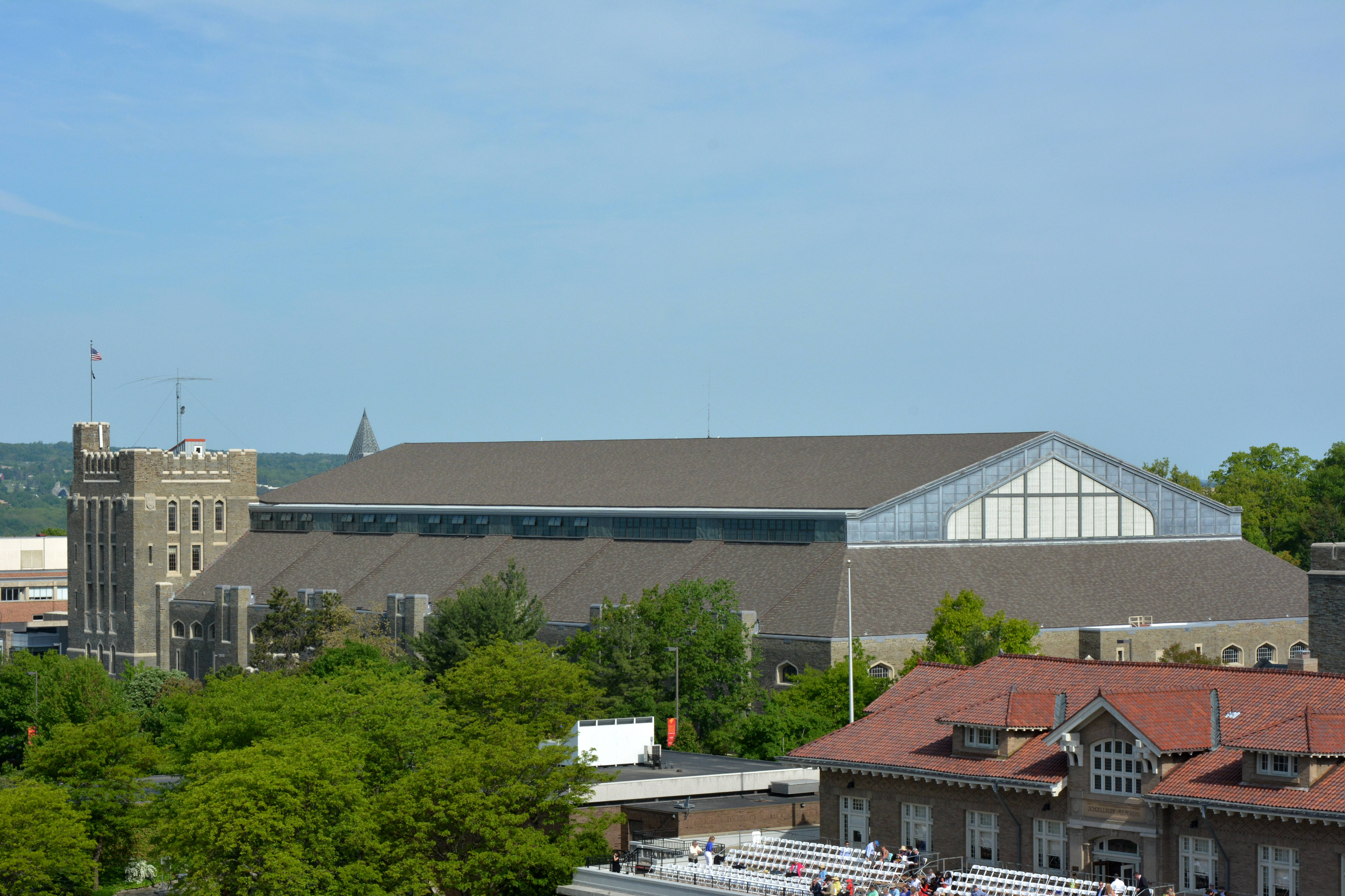 Barton Hall from Schoellkopf Field, taken today, May 24, 2015.